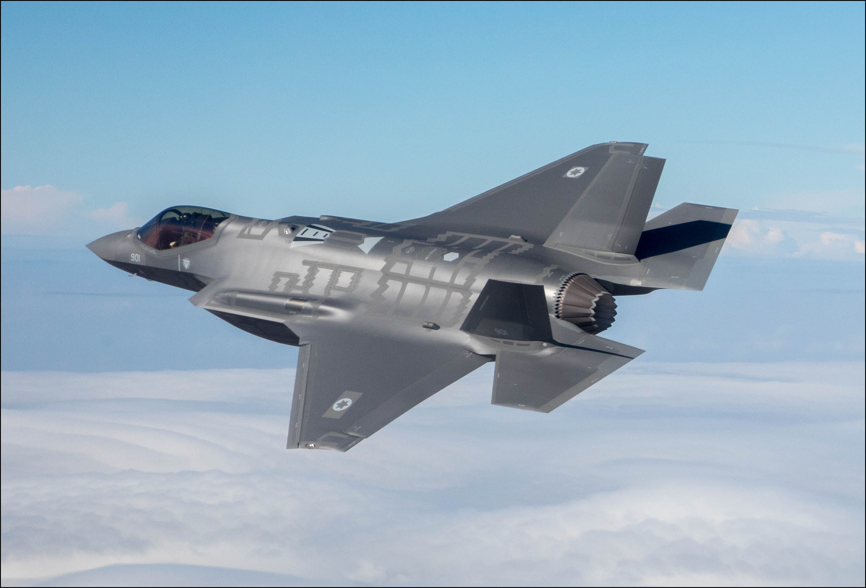 The "Adir" jets first flight in Israel. Pictured: "Adir" jet and F-16I "Sufa". Photo by: Maj. Ofer